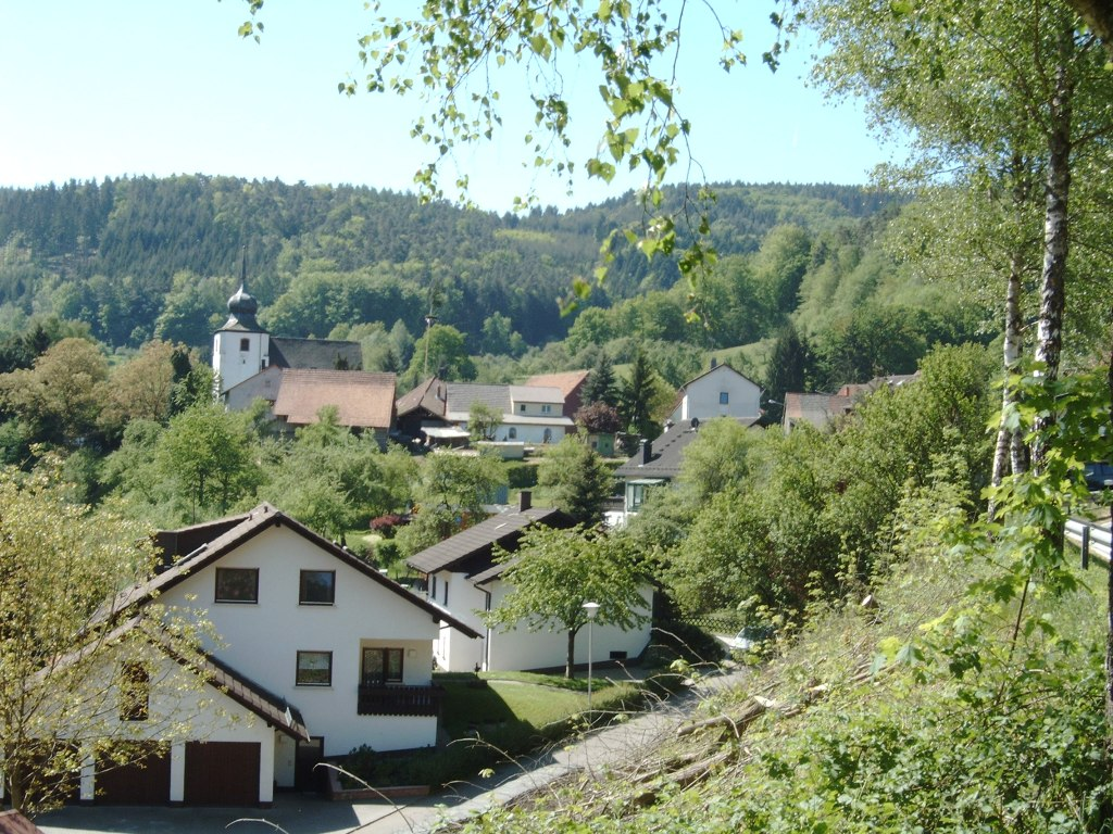 Church in Heddesbach)